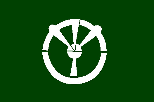 Flag of kanan Osaka